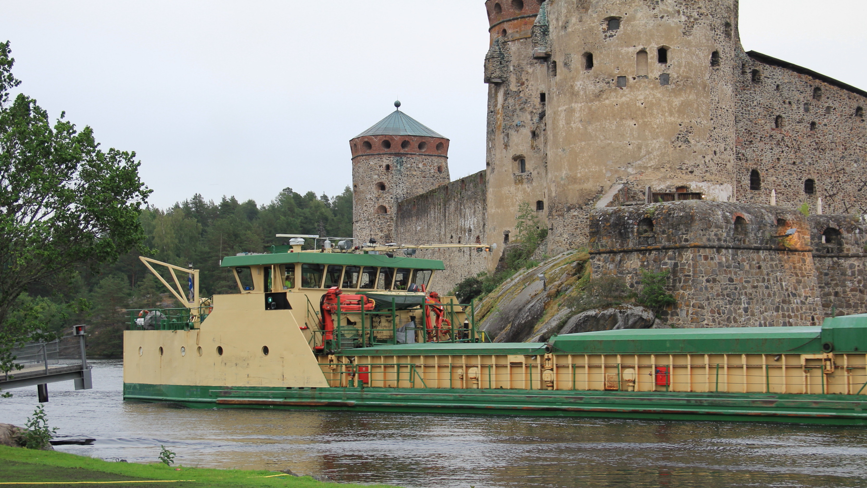 Cargo ship Vekara passing Olavinlinna Castle in Savonlinna, Finland.